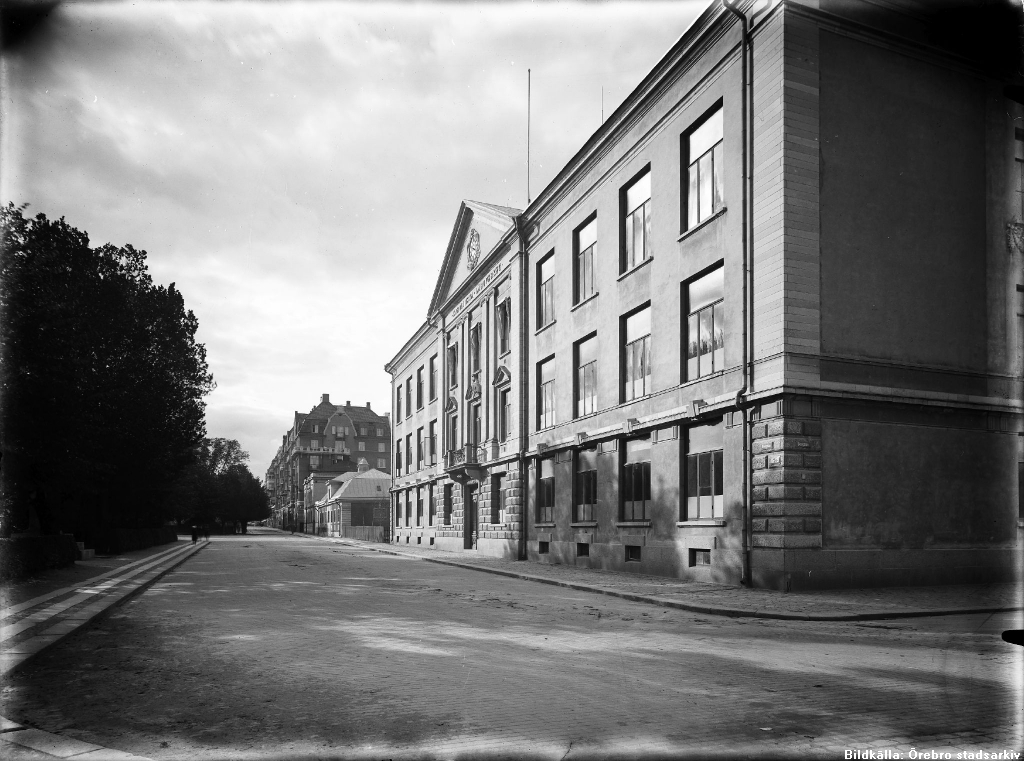 The street Olaigatan, Örebro, Sweden